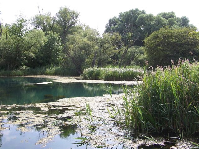 Tetney Blow Well